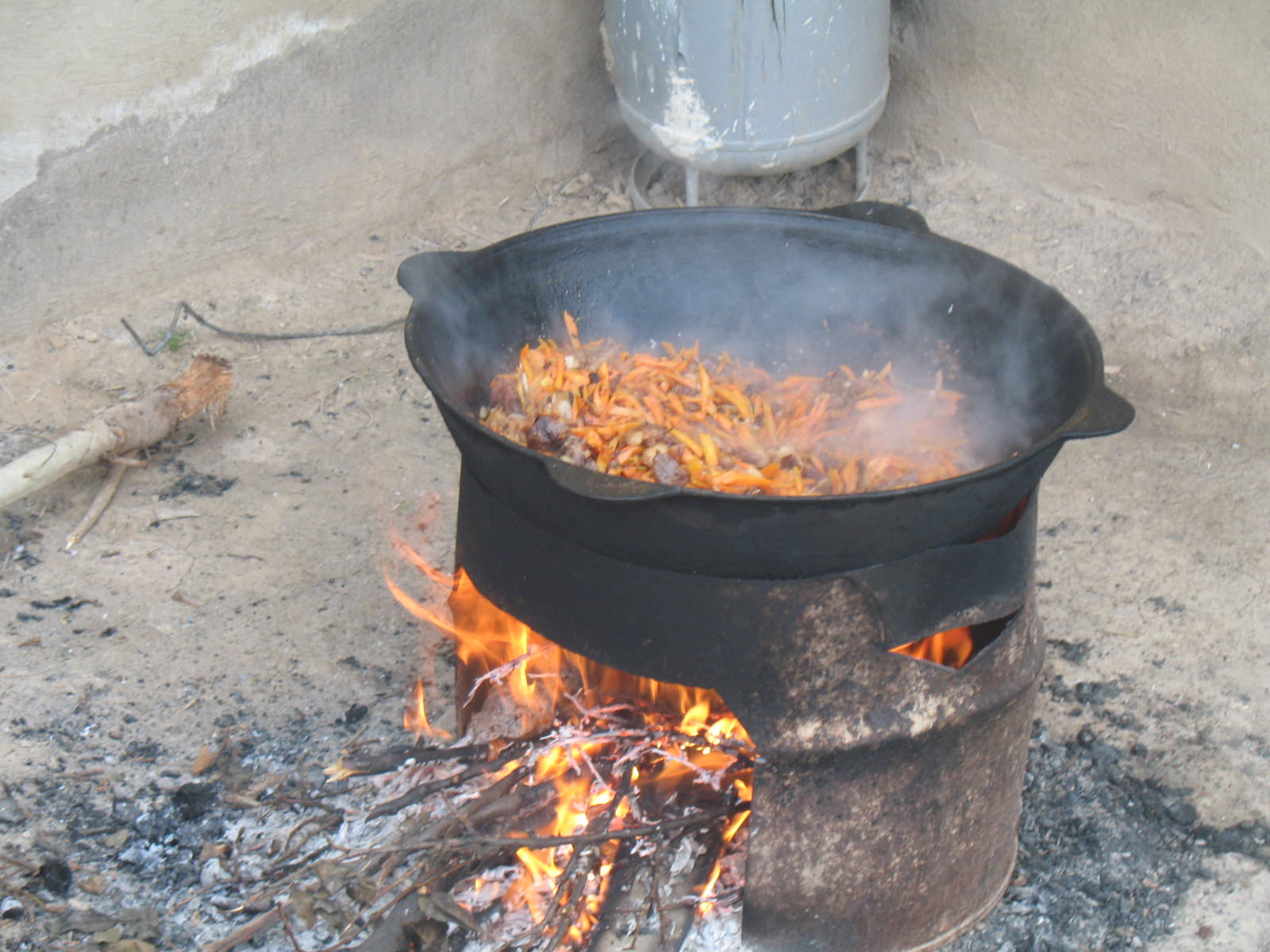 Paloo cooking in a kazan in Aq-örgöö, Chüy, Kyrgyzstan. Кыргызча: Ак өргөөдө (Чүйдө) палоо казан ичинде бышып жатат.